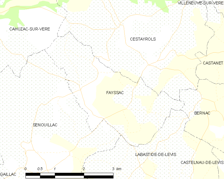 Map of French municipality Fayssac